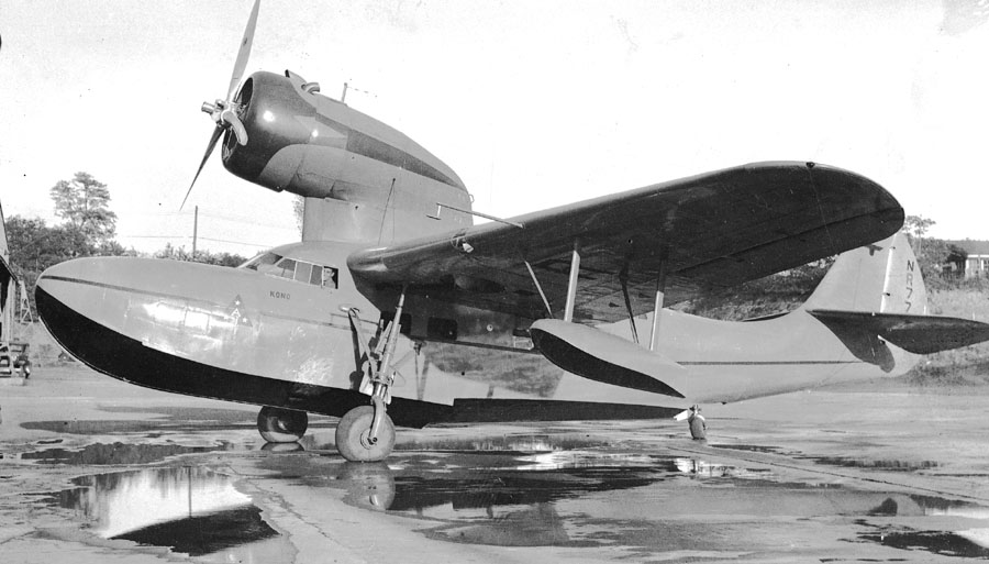 Richard Archbold's "Kono". Gar Wood also had one of these as a flying yacht and they were flown by Panair do Brasil in South America.